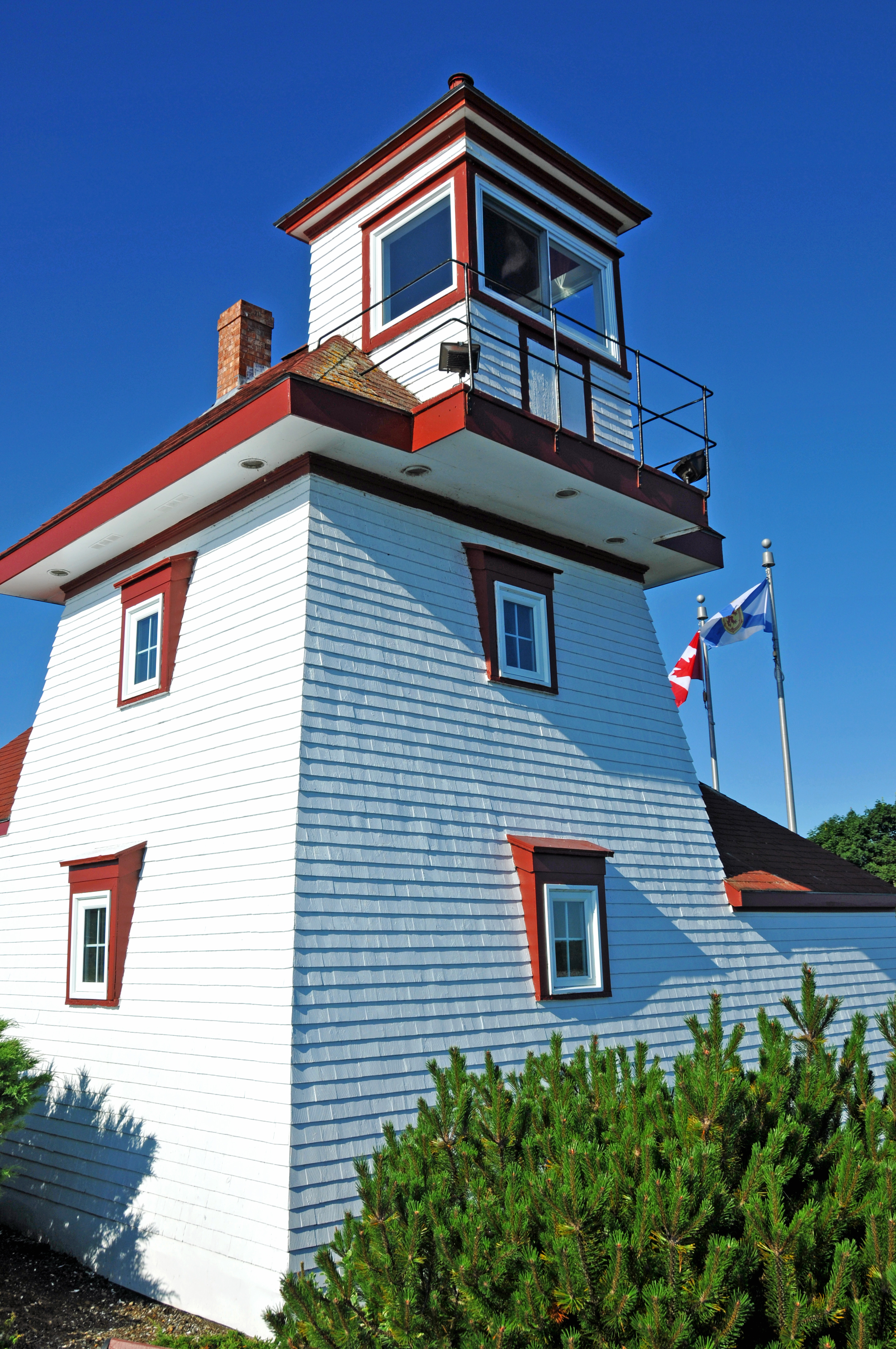 Fort Point Lighthouse. Liverpool, Nova Scotia boasts a uniquely shaped light, one of the oldest in Nova Scotia, commanding a historic site close to the middle of town. Named after the fortified gun battery that protected the town from the 1760s to the 1860s, the point saw several actions in the American Revolution. It was also a signal station and an important public gathering place for the town, becoming park in the late 1800s. The first lighthouse was established here in 1855 This lighthouse is a timber combination dwelling and tower in an unusual "hunchbacked" shape. Body of Water: Liverpool Harbour Scenic Drive: Lighthouse Route Tower Height: 017ft Height Above Water: 030ft Characteristic: Flashing White (1950) Still standing: True Still operating: False